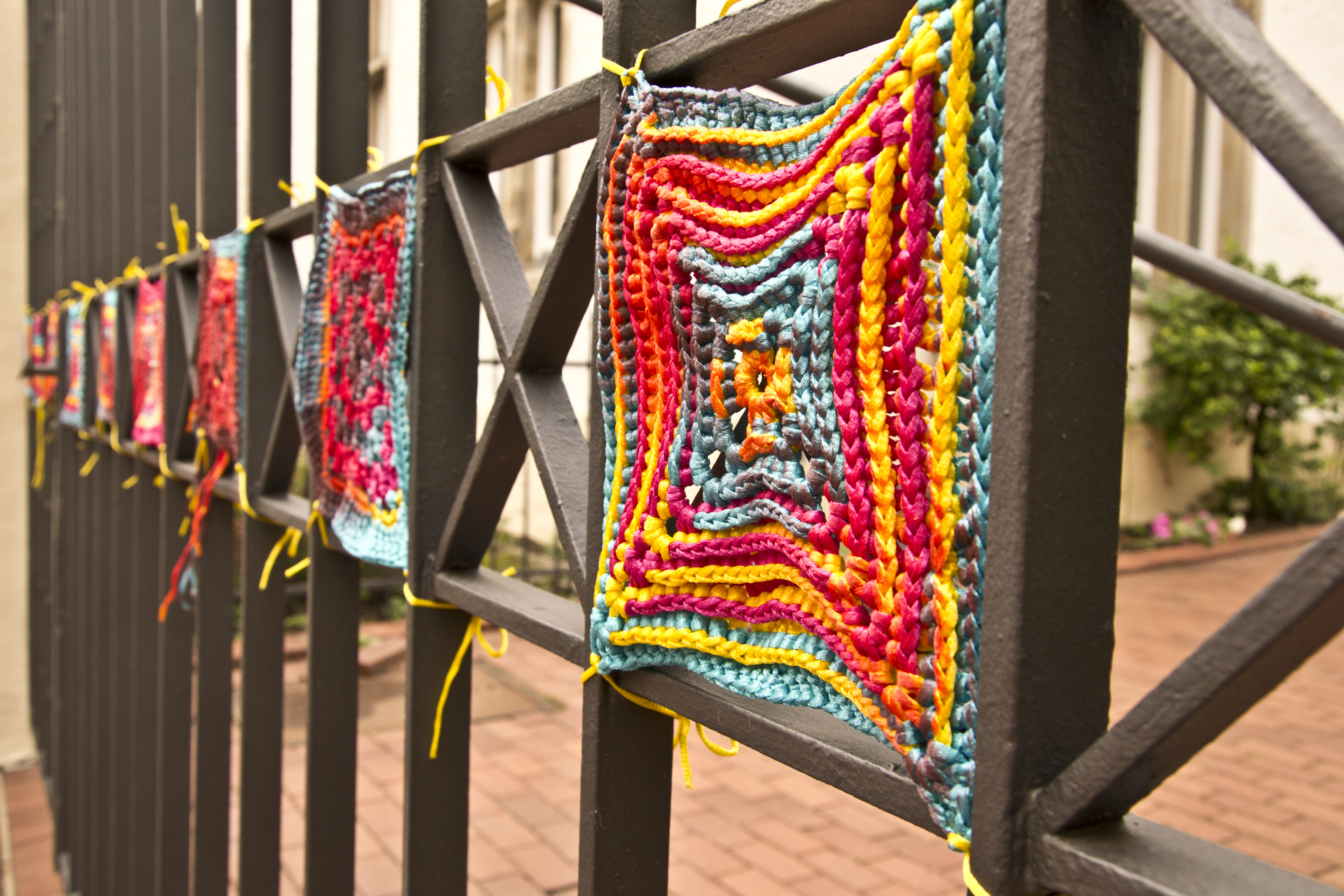 squares